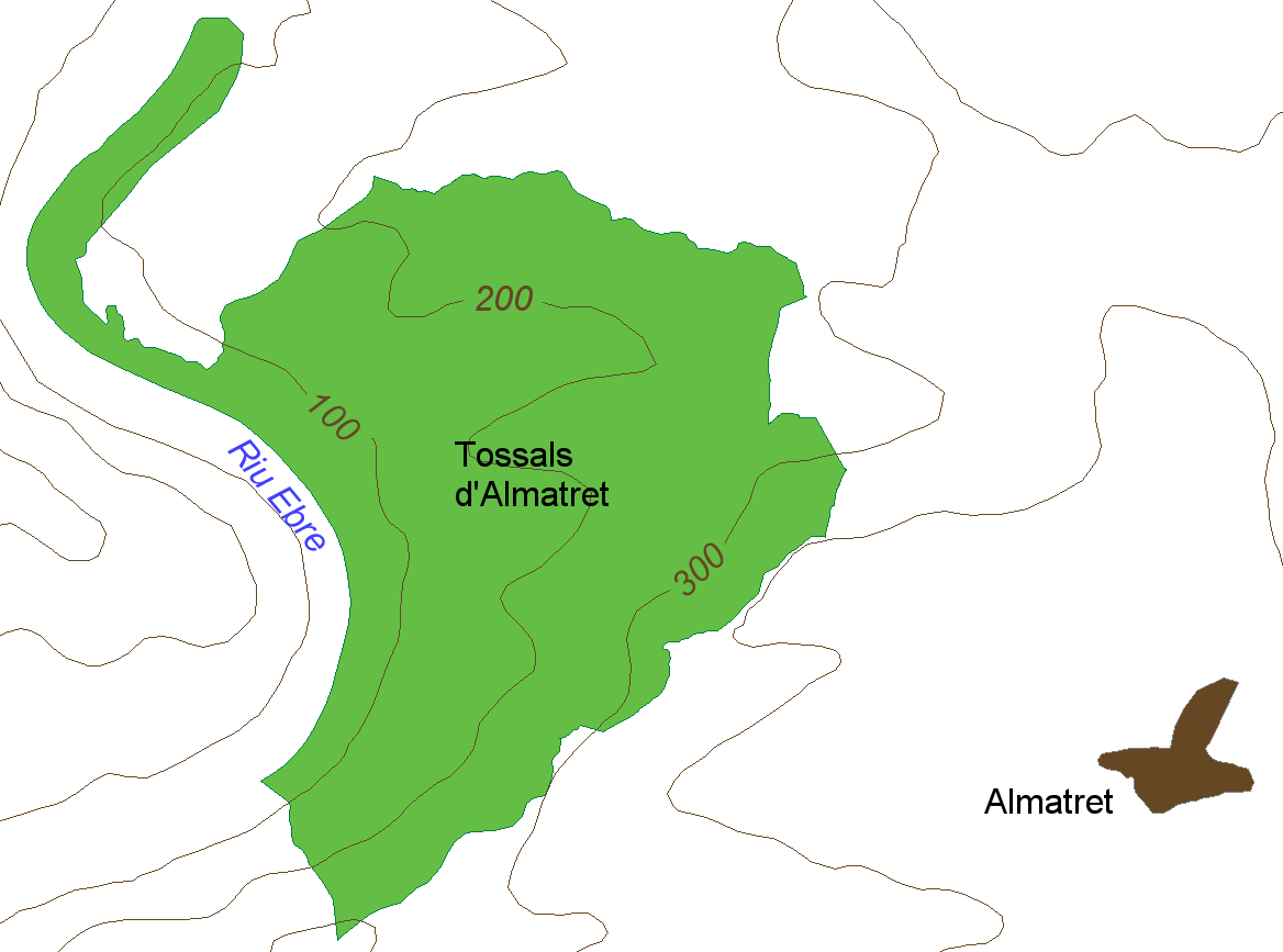 Map of Tossals d'Almatret